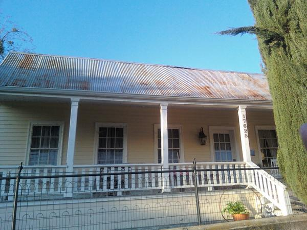 The Lewis Dent House — in Knights Ferry, Stanislaus County, California. A Knights Ferry Historic District contributing property on the National Register of Historic Places.